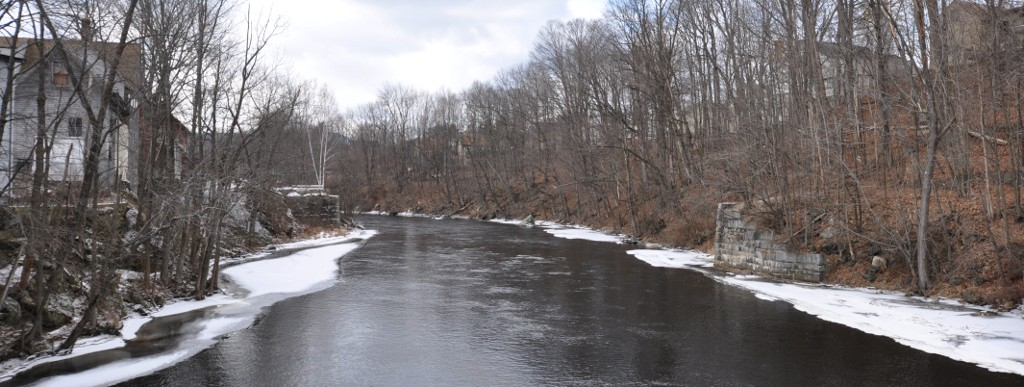 The Contoocook River, as seen from the Route 149 bridge in Hillsborough, New Hampshire. Visible on either bank are the abutments that previously supported the Hillsborough Railroad Bridge, destroyed by fire in the 1980s.